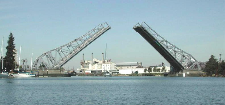 The High Street Bridge in Alameda, California, with its double-leaf bascule span raised